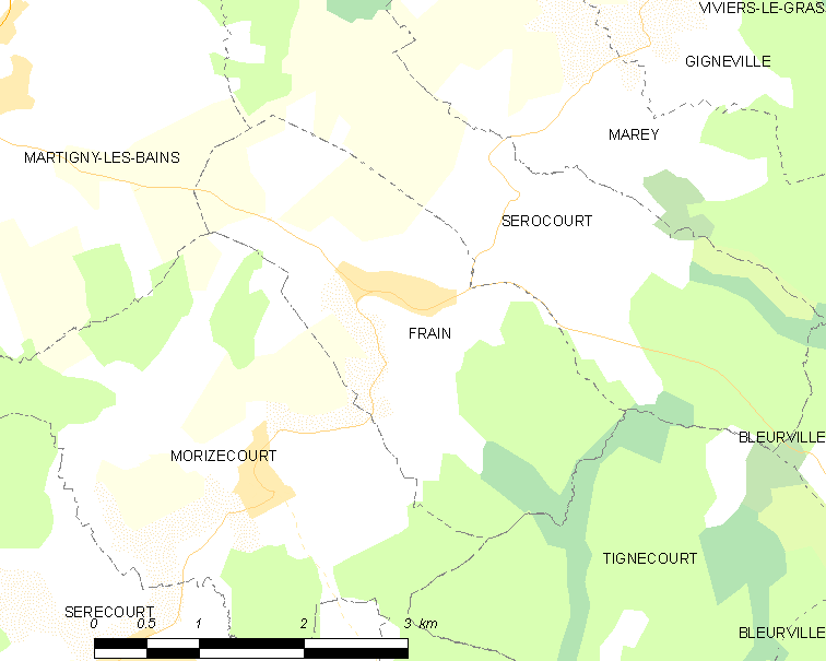 Map of French municipality Frain